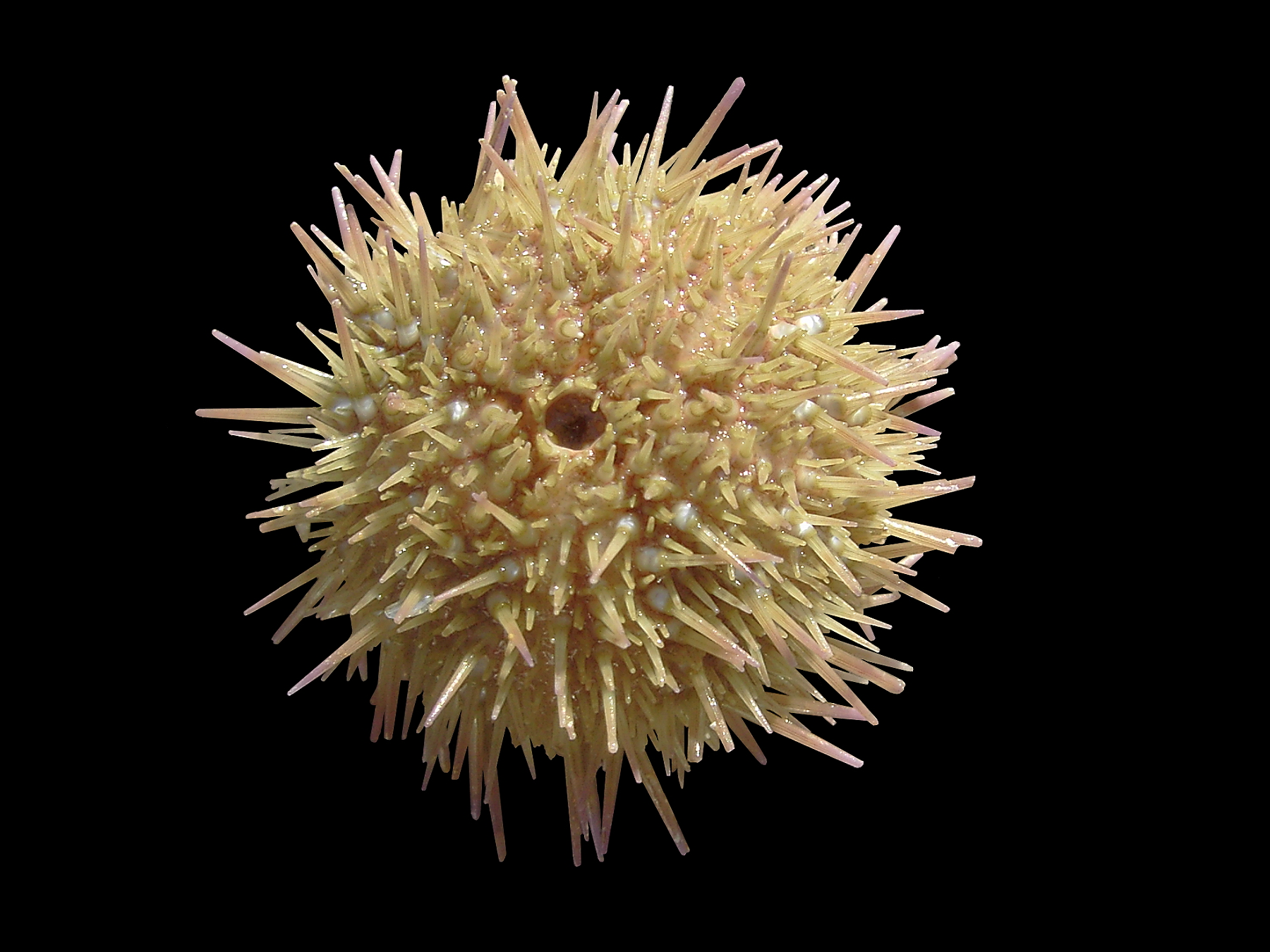 Belgian Continental Shelf 2005